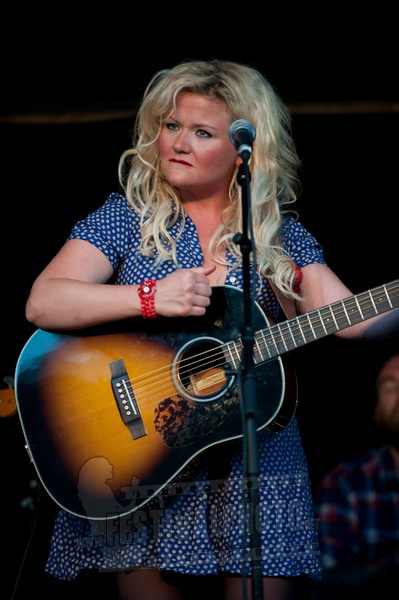 Visfestival Holmön